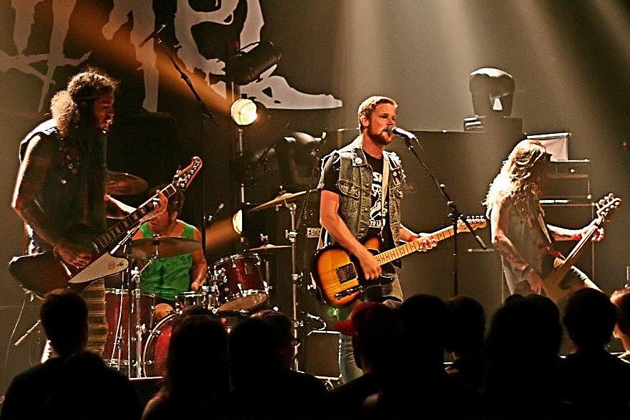 The Hunters performing live during EXO Fest in Quebec City, Quebec, Canada on August 2, 2012.